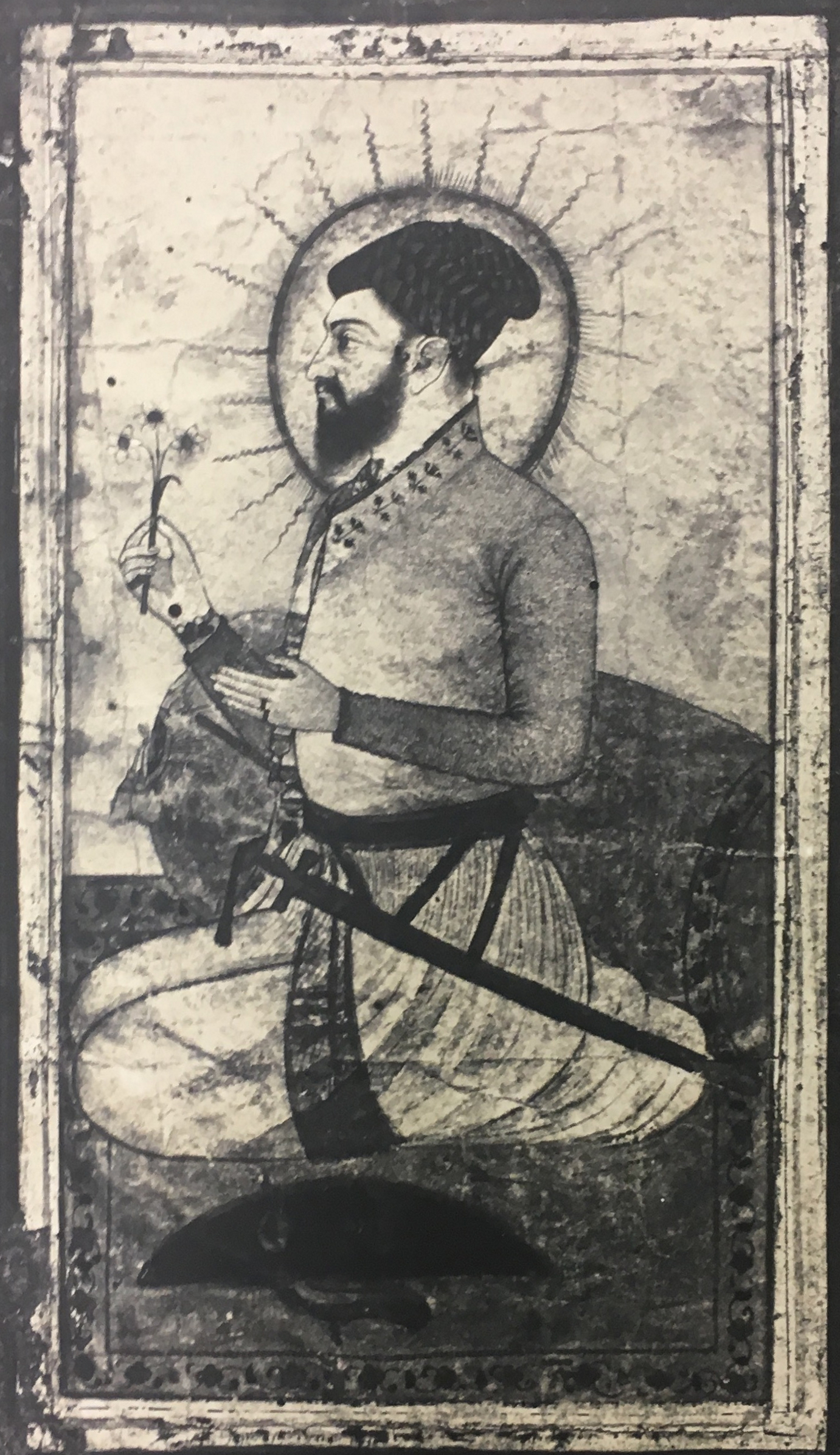 Colonial Photograph of a Miniature of Sultan Ghayas ud din